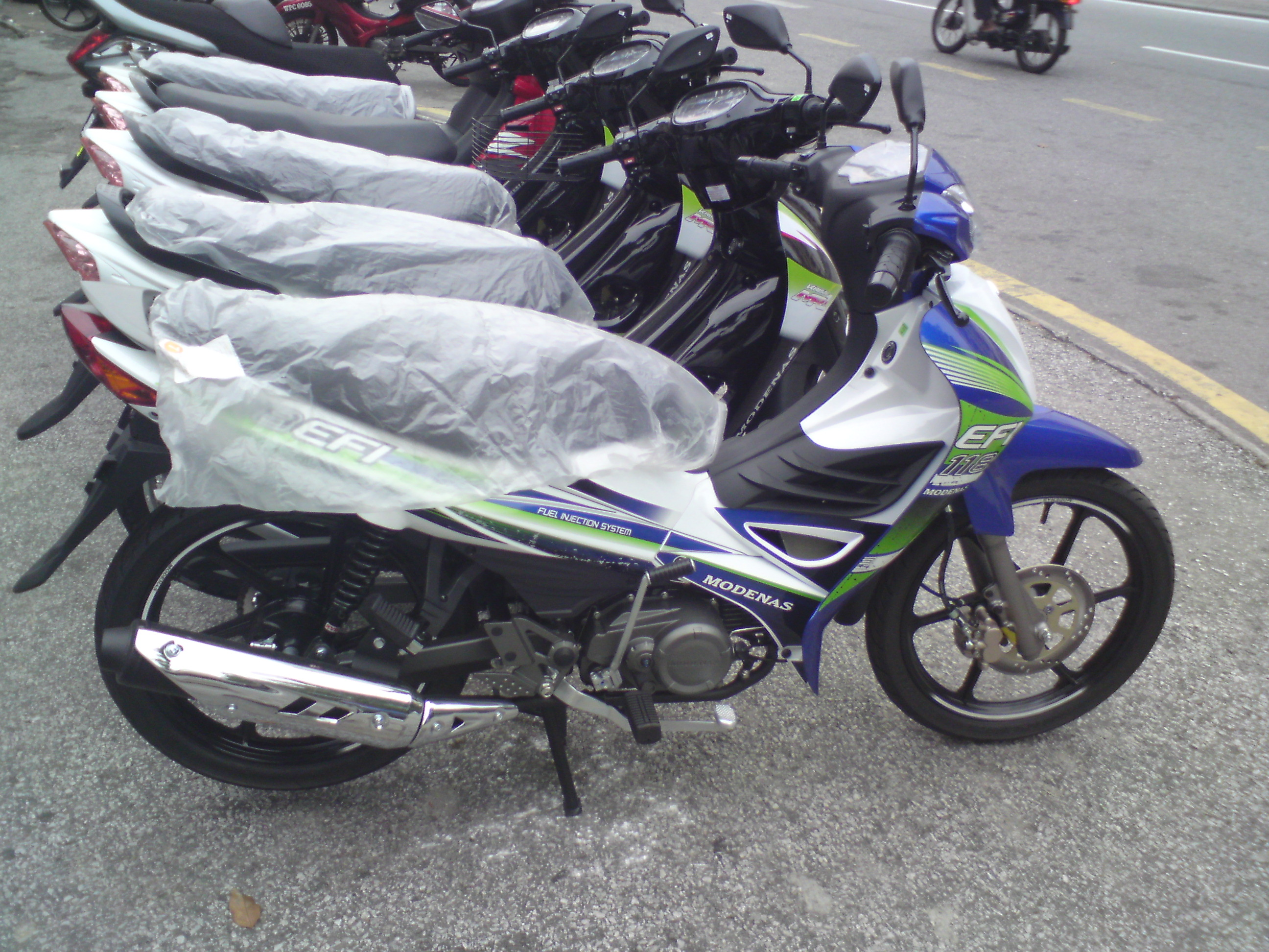 A fuel-injected Modenas 118EFI is shown at a motorcycle shop at Sentul, Kuala Lumpur.